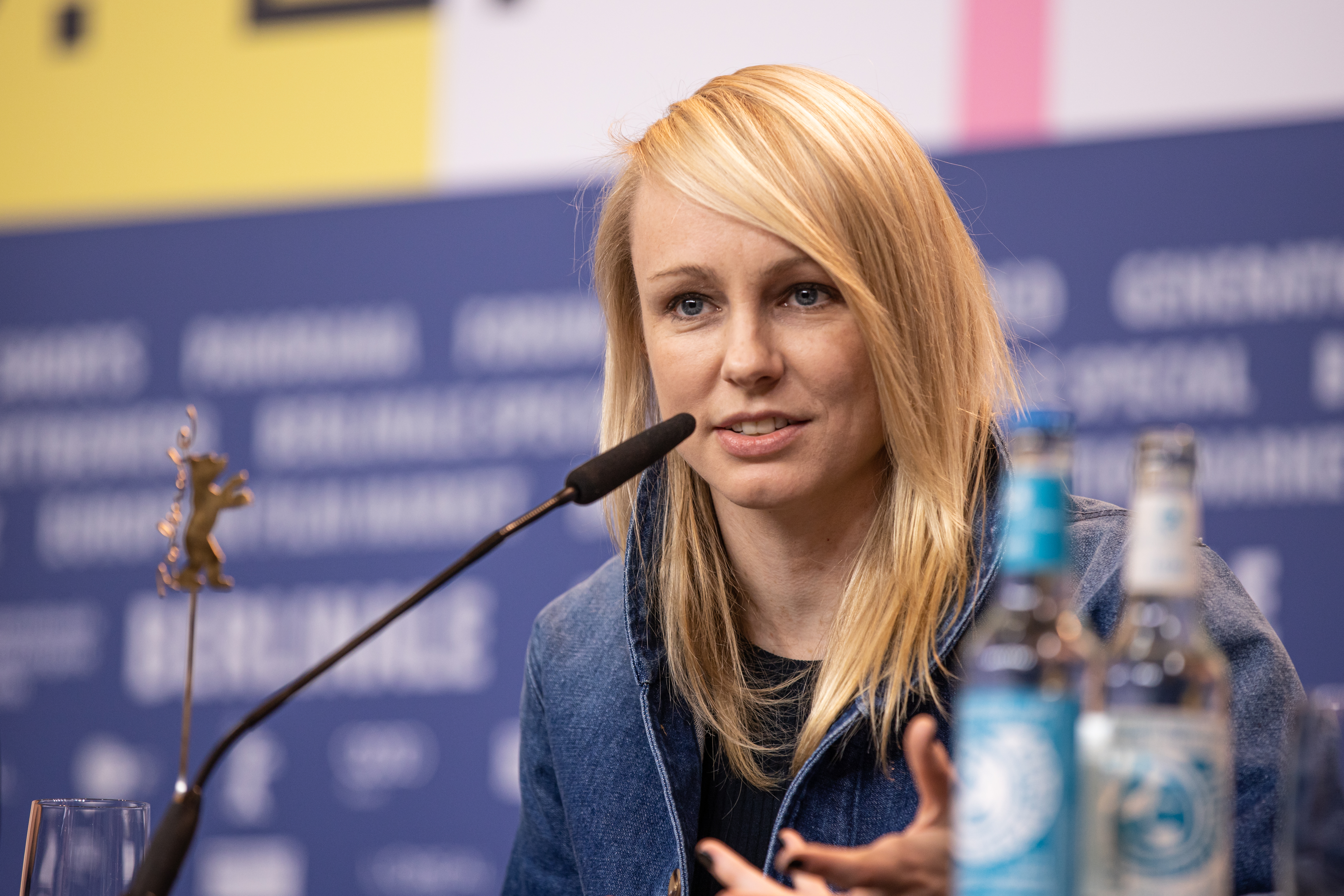 Film director Kitty Green at the Berlinale 2020